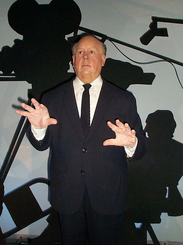 Alfred Hitchcock wax figure at Madame Tussauds London.